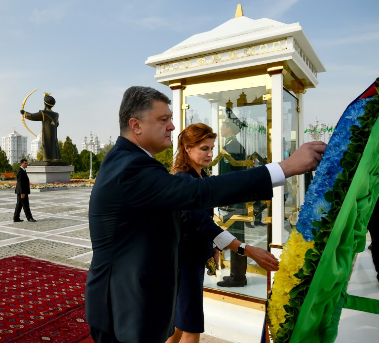 President Petro Poroshenko noted that his visit to Turkmenistan opened new opportunities for Ukrainian companies in the cooperation between the two countries.